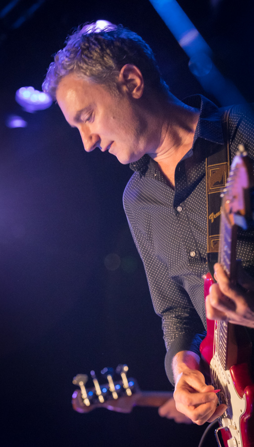 Avi Bortnick with John Scofield at the stage of Energimølla. The concert was part of Kongsberg Jazzfestival and took place on 06. July 2017. Lineup: John Scofield (guitar) Dennis Chambers (drums) Avi Bortnick (guitar) Andy Hess (bass guitar)